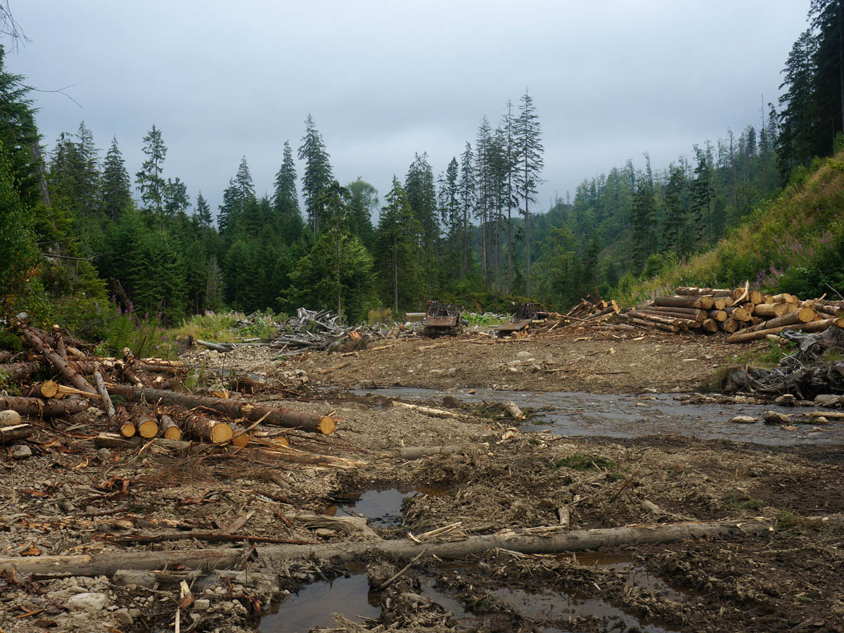 river Mshana AlongCarpathian Expedition 27.07-27.08.2013